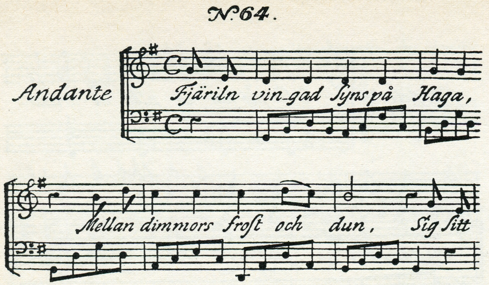 First two lines of Carl Michael Bellman's song "Fjäriln vingad syns på Haga", Fredman's Songs no. 64, published in 1791.